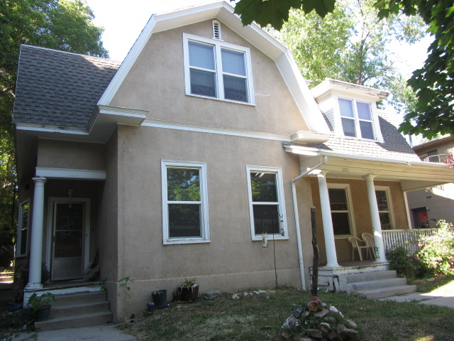 Rooming house at 565 First Avenue, Salt Lake City, Utah, where Ted Bundy lived from September of 1974 to October of 1975, in room #2. Bundy is believed to have taken some of his Utah victims, possibly including Melissa Smith, Laura Aime, Deborah Kent, and Susan Curtis, to this house.